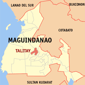 Map of the Maguindanao showing the location of Talitay